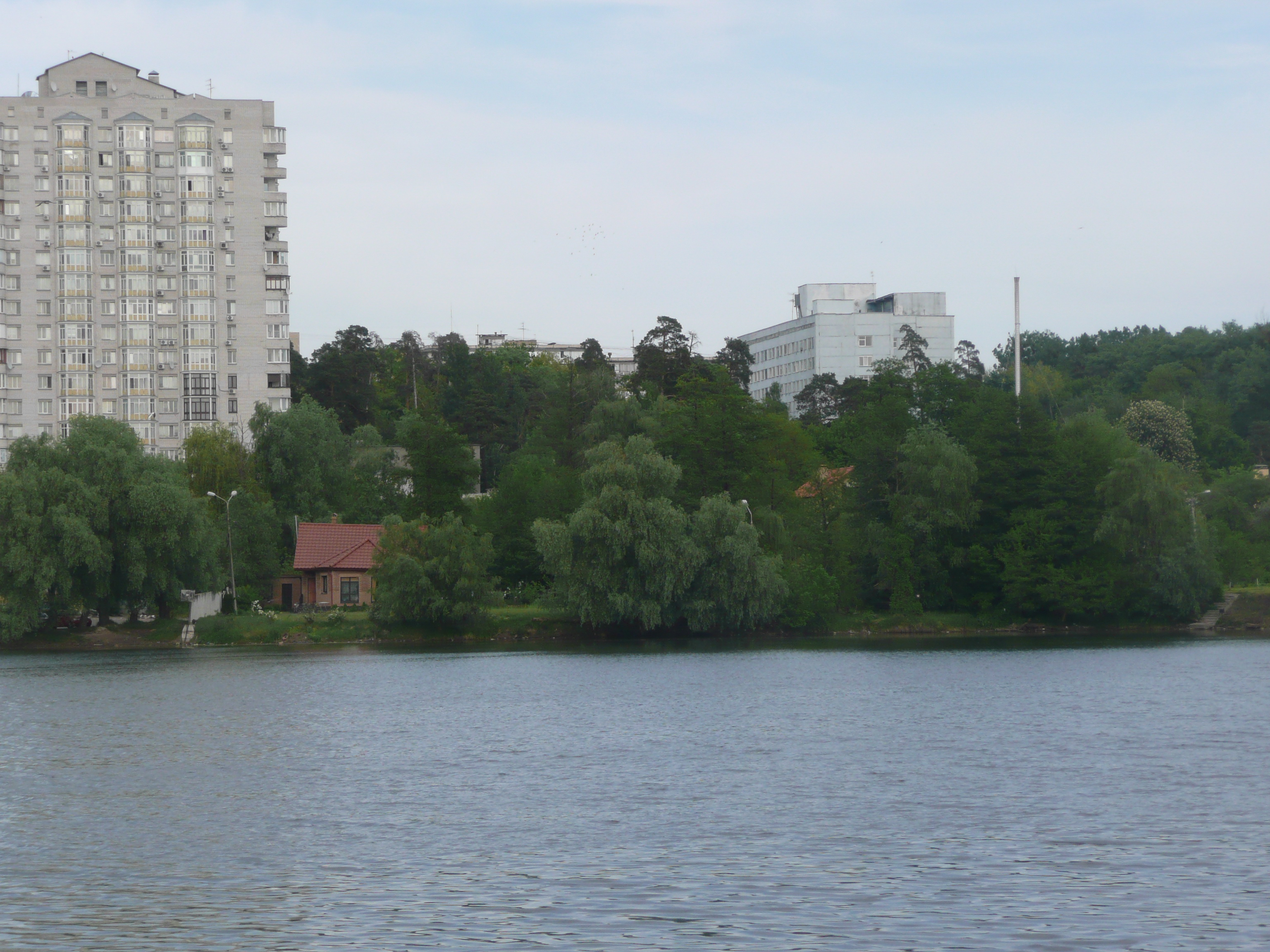 Sviatoshyn Pond #14, Kyiv, Ukraine